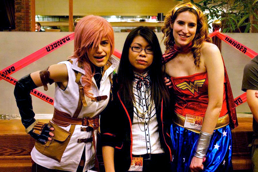 Cosplayers Alaire Bowen (cosplaying Lightning from Final Fantasy XIII), Victoria Suebsanh, and Dani Forsberg (cosplaying Wonder Woman from DC Comics) pose for a photo shoot inside Red Lion Hotel in Pasco, WA for the February 2012 Radcon Convention.